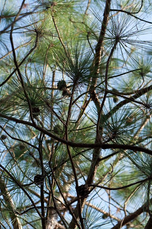 Pinus yunnanensis foliage and cones, Stone Forest, Yunnan, China (locality not specified with photo, deduced from adjacent photos in photographer's Flickr series)